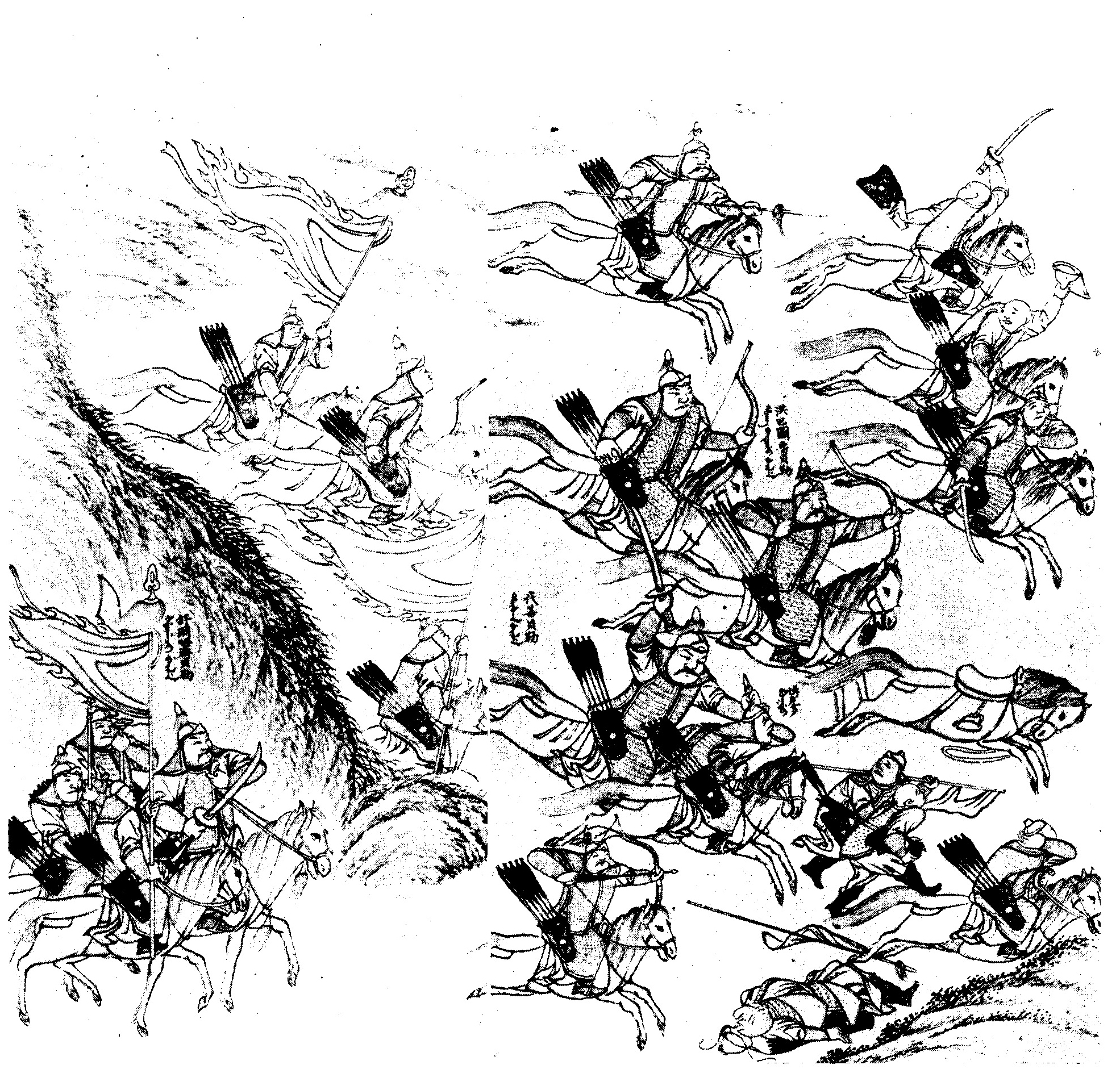 洪巴圖魯代善貝勒敗烏拉兵